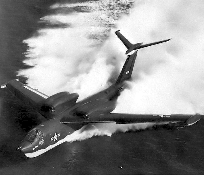 Martin P6M SeaMaster. US Navy pic, public domain.